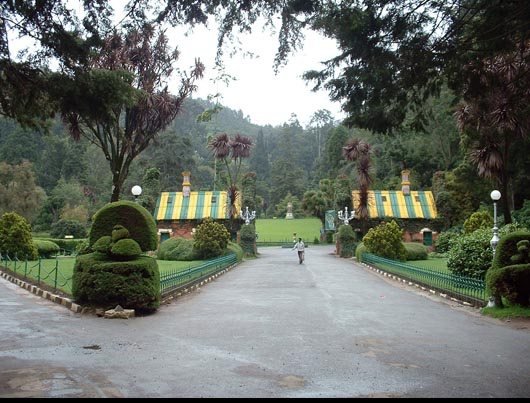 Government Botanical Gardens